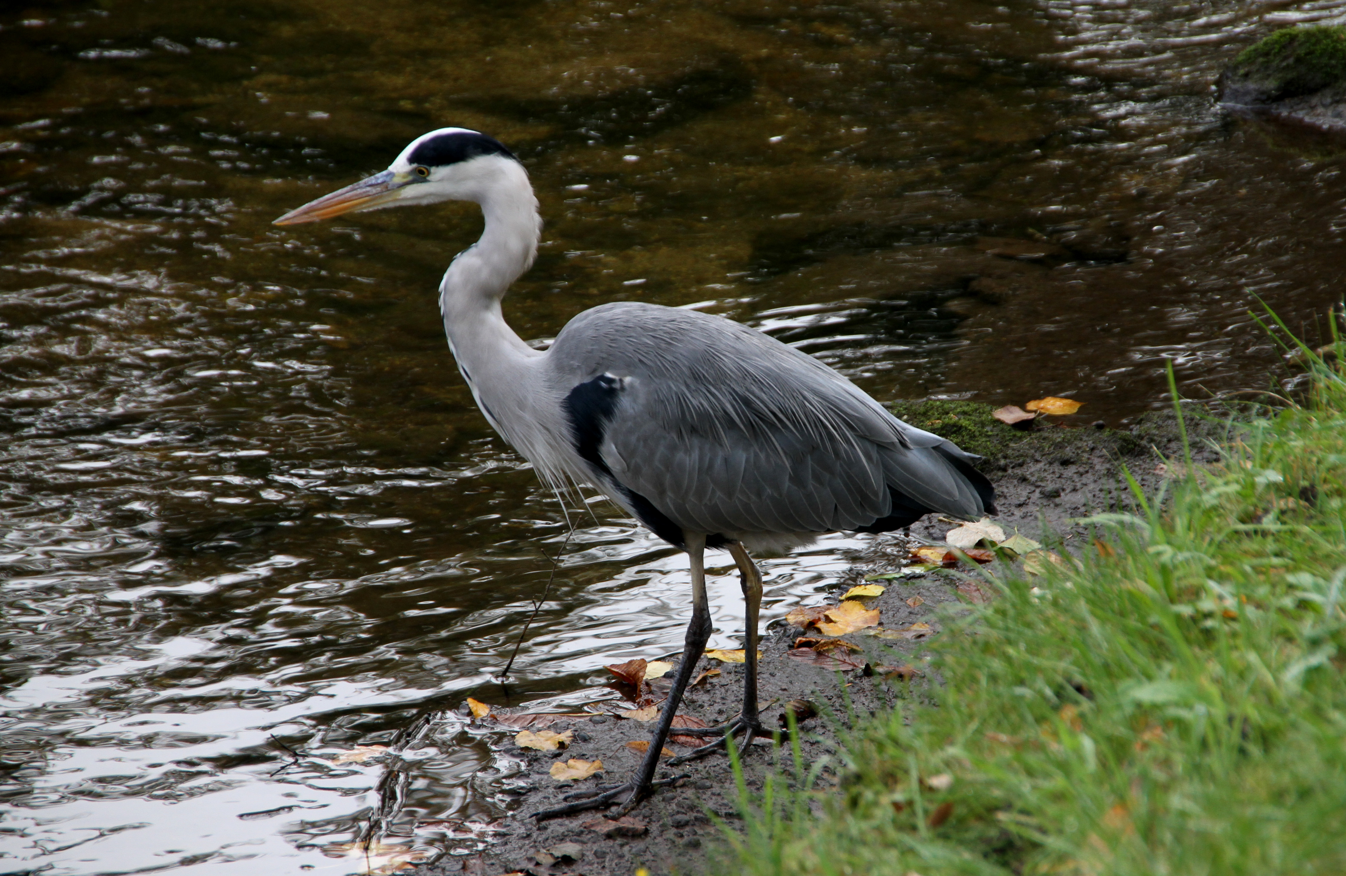 Gray Heron in Baden-Baden